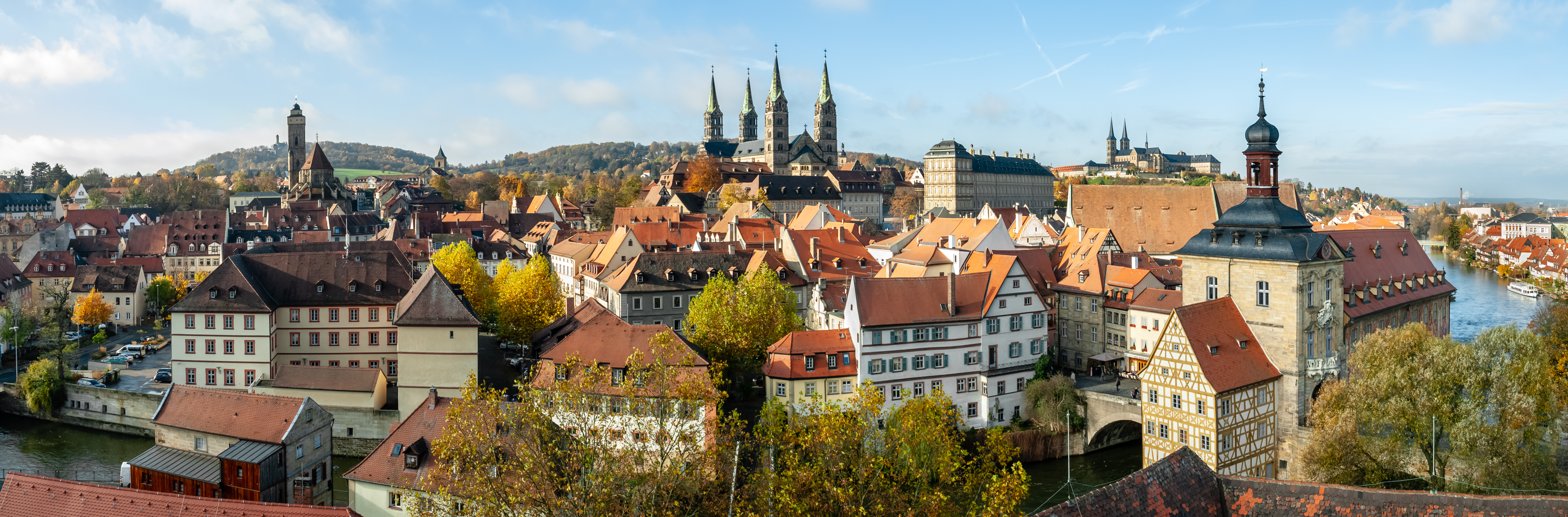 View of the old town of Bamberg from the tower of the Geyerswörth town hall